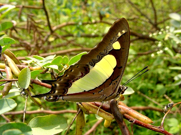 Anomalous Common Nawab (Polyura agraria) photographed at Bangalore